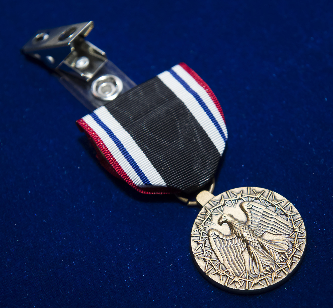 Air Force Chief of Staff Gen. Mark A. Welsh III presented the Prisoner of War Medal to eight Army Air Corps members who served in World War II during a ceremony in the Pentagon, April 30, 2014. The eight aviators, all bomber crew members, were shot down flying missions over Germany and were held in a prison camp in Wauwilermoos, Switzerland. The men were originally denied POW status. U.S. Army Maj. Dwight Mears, whose grandfather, Lt. George Mears, who was held at the prison, fought diligently for 15 years to get the men recognized as POWs. Then Acting Secretary of the Air Force Eric Fanning authorized the medal for 143 Army Air Corps aviators in October of last year. (U.S. Air Force photo/Jim Varhegyi)